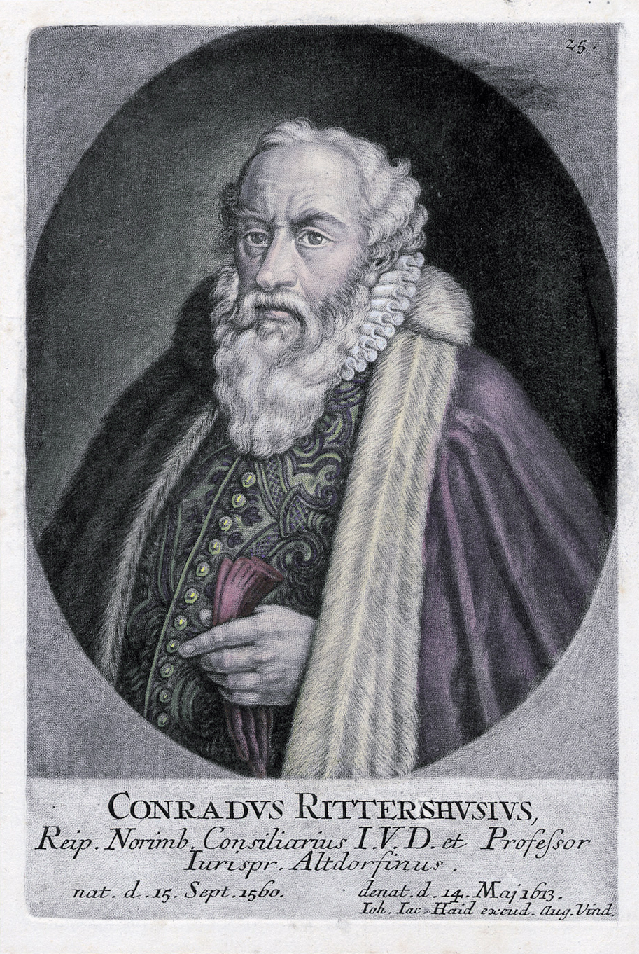 Konrad Rittershausen Aquatint 21.3 x 14 cm